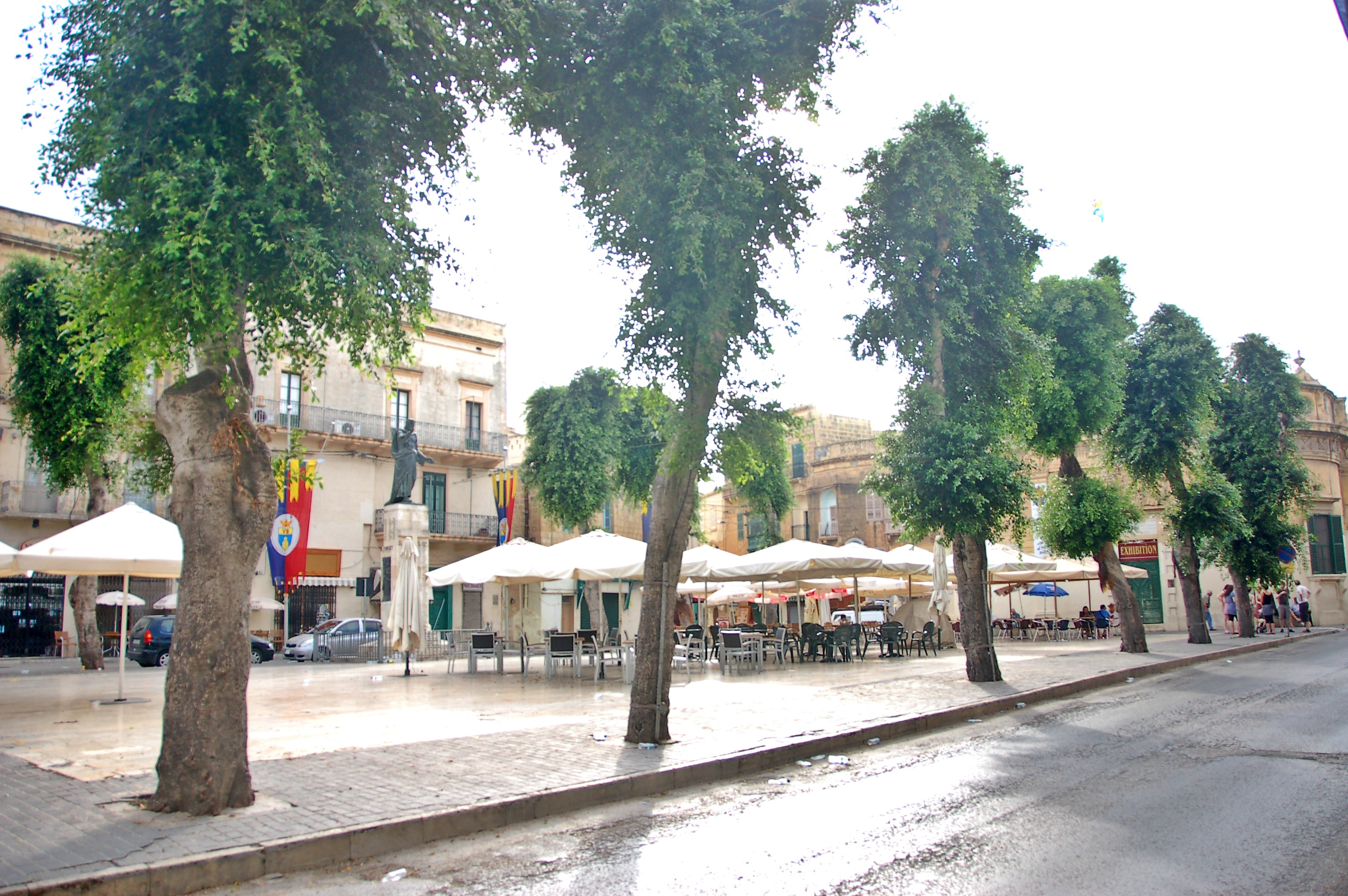 The marketplace in Viktoria on a Sunday afternoon (without marked)